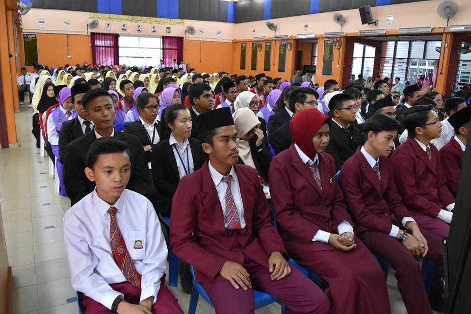 Majlis Pelantikan Pemimpin Pelajar